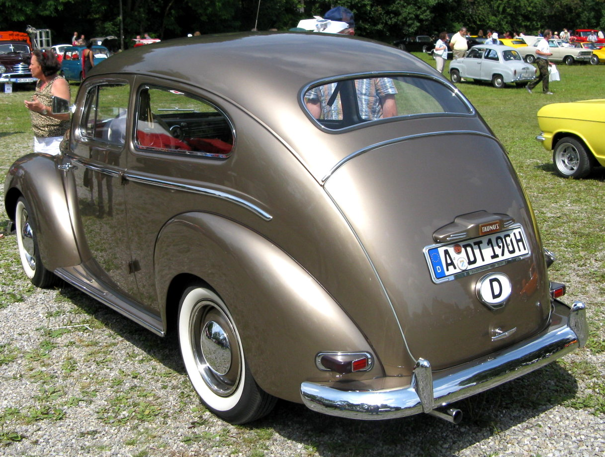 1951 Ford Taunus G93A at Vintage Vehicles Meeting in Mering (Bavaria)